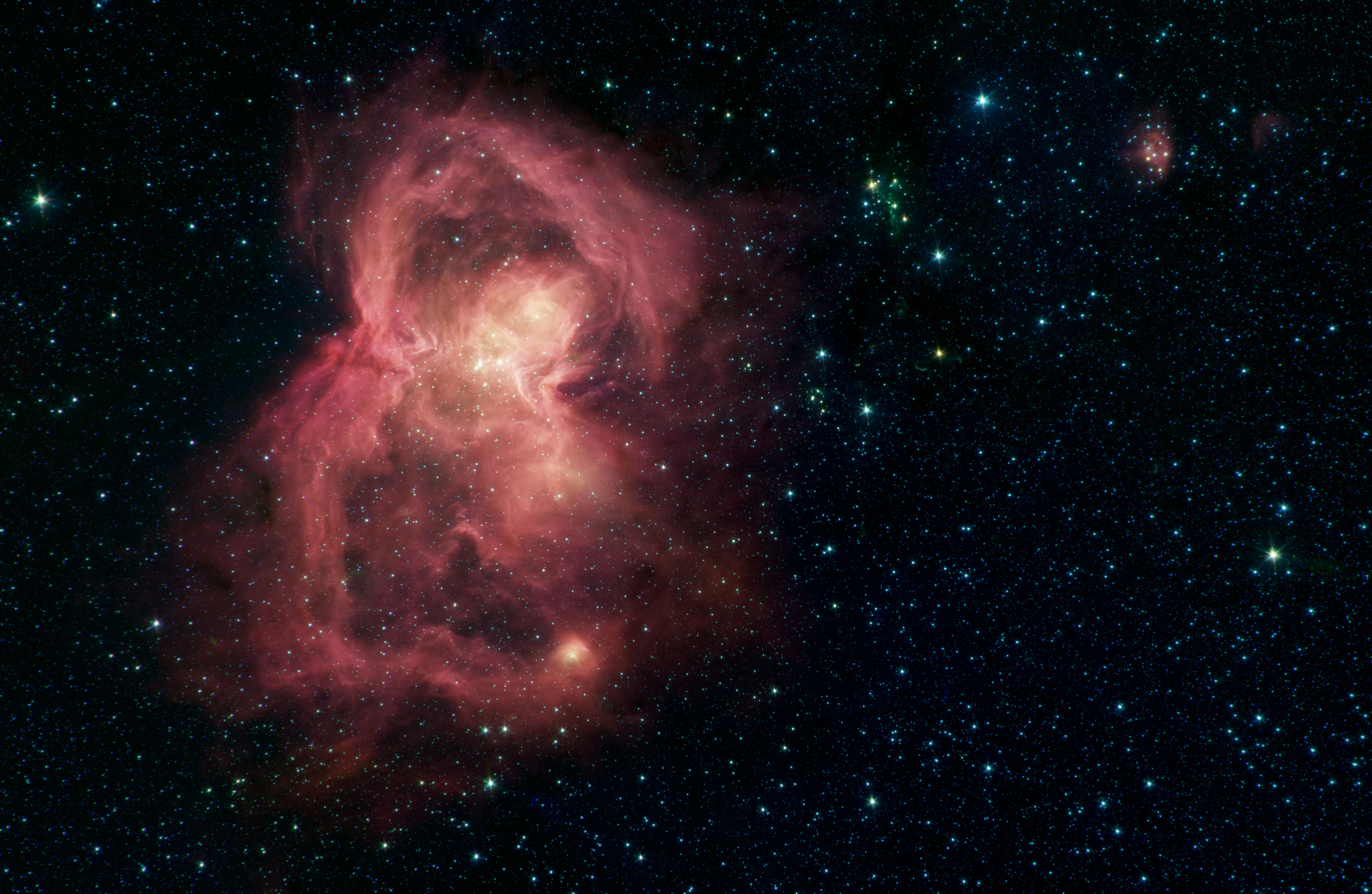 This image taken by NASA's Spitzer Space Telescope reveals the stellar nursery W40 (also known as Sh2-64) in infrared light. A young cluster of several hundred stars is located at the center of the nebula, and the stellar winds and radiation coming from these stars have blown bubbles in the surrounding gas. The expanding bubbles have produced the "butterfly" shape as seen in the image. Spitzer's IRAC camera took this mid-infrared image in the bands 8.0 micron, 5.8 micron, 4.5 micron, and 3.6 micron, here represented as red, orange, green, and blue.